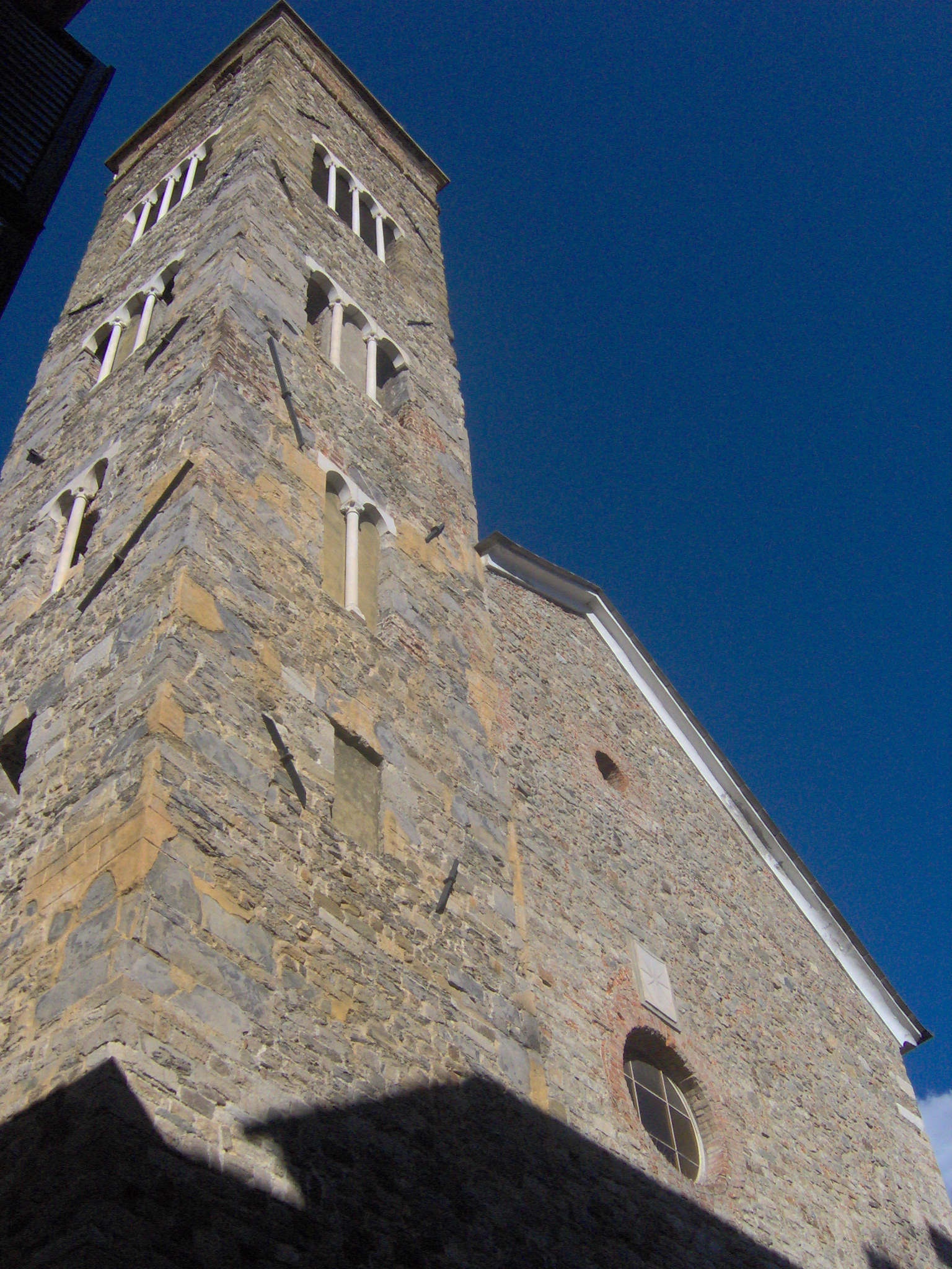 Historic part of the town of Sarzana, Liguria, Italy